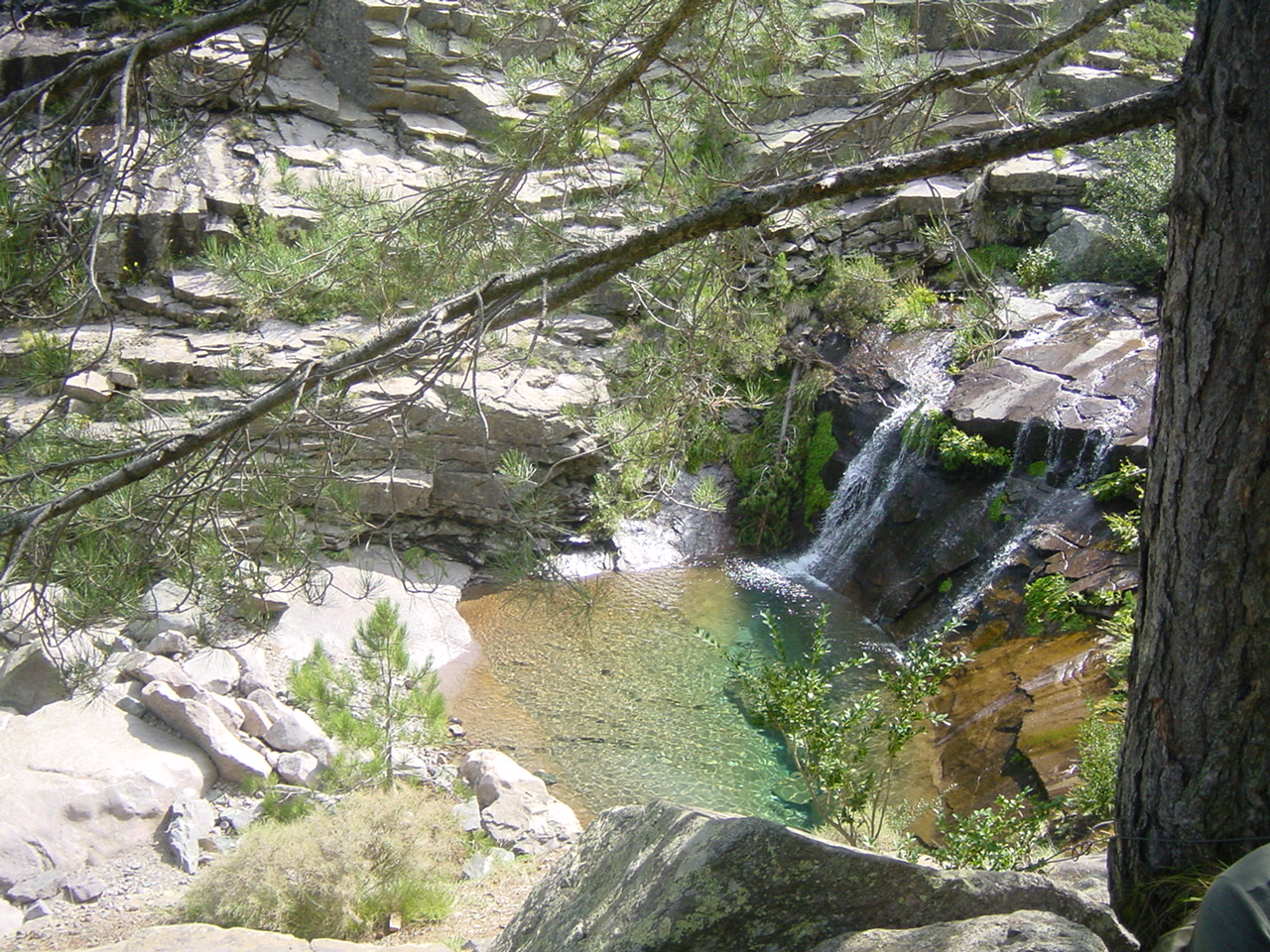 Bonifato's forrest in Corsica (France)